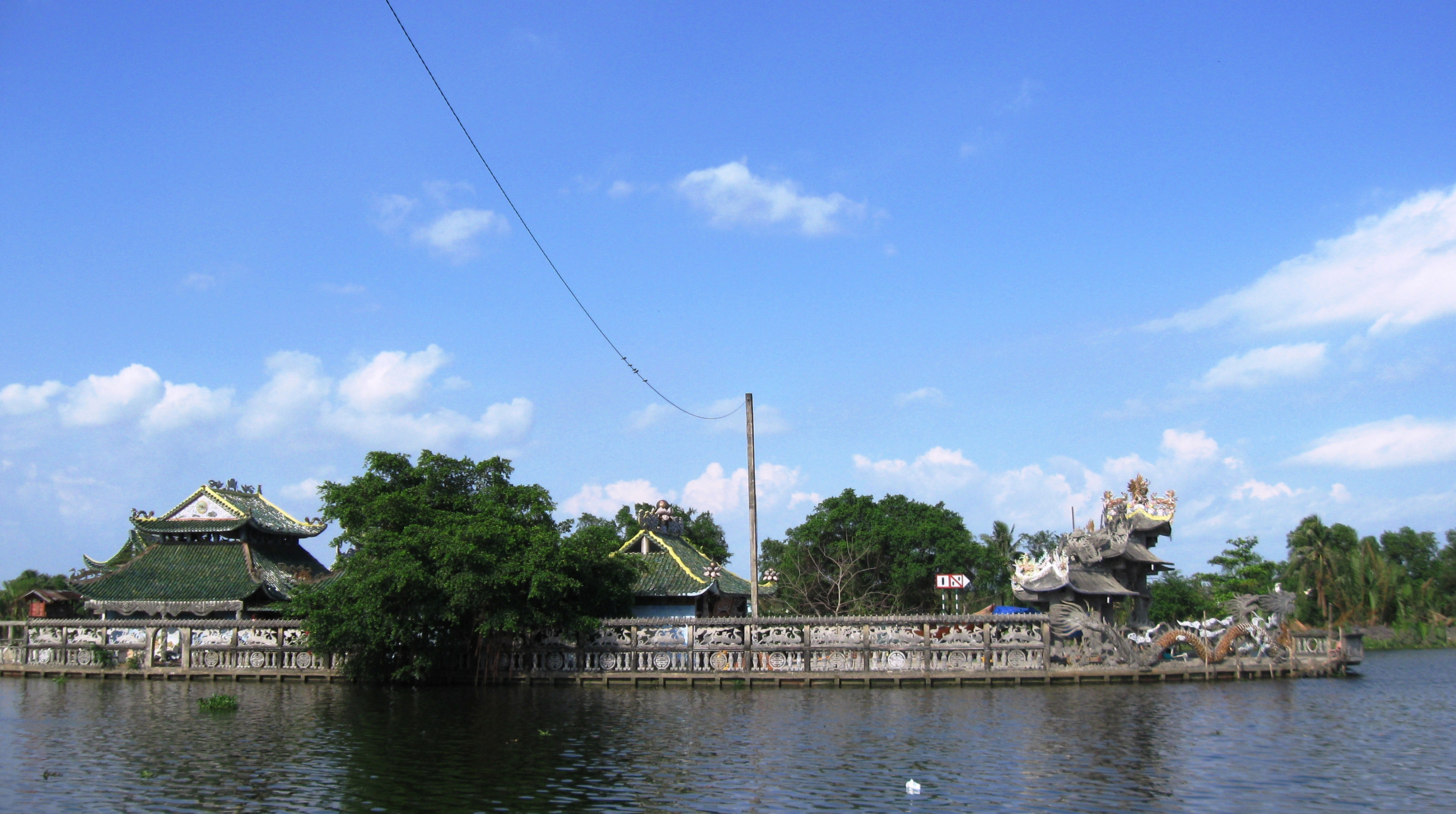 Miếu Nổi (Floating Temple), a Chinese-Vietnamese temple on the Vam Thuat river, Gò Vấp district, Gia Định province (now "HCMC")